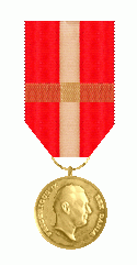 The Royal Medal of Recompense